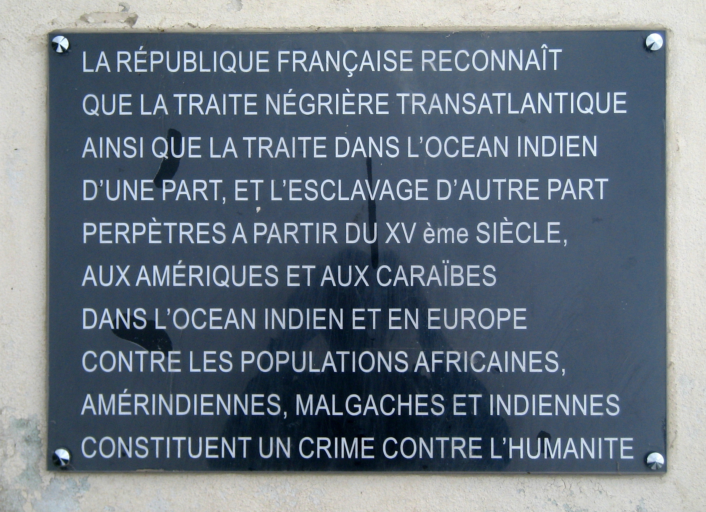 Héloïse ou la fille des Trois-Rivières, plaque